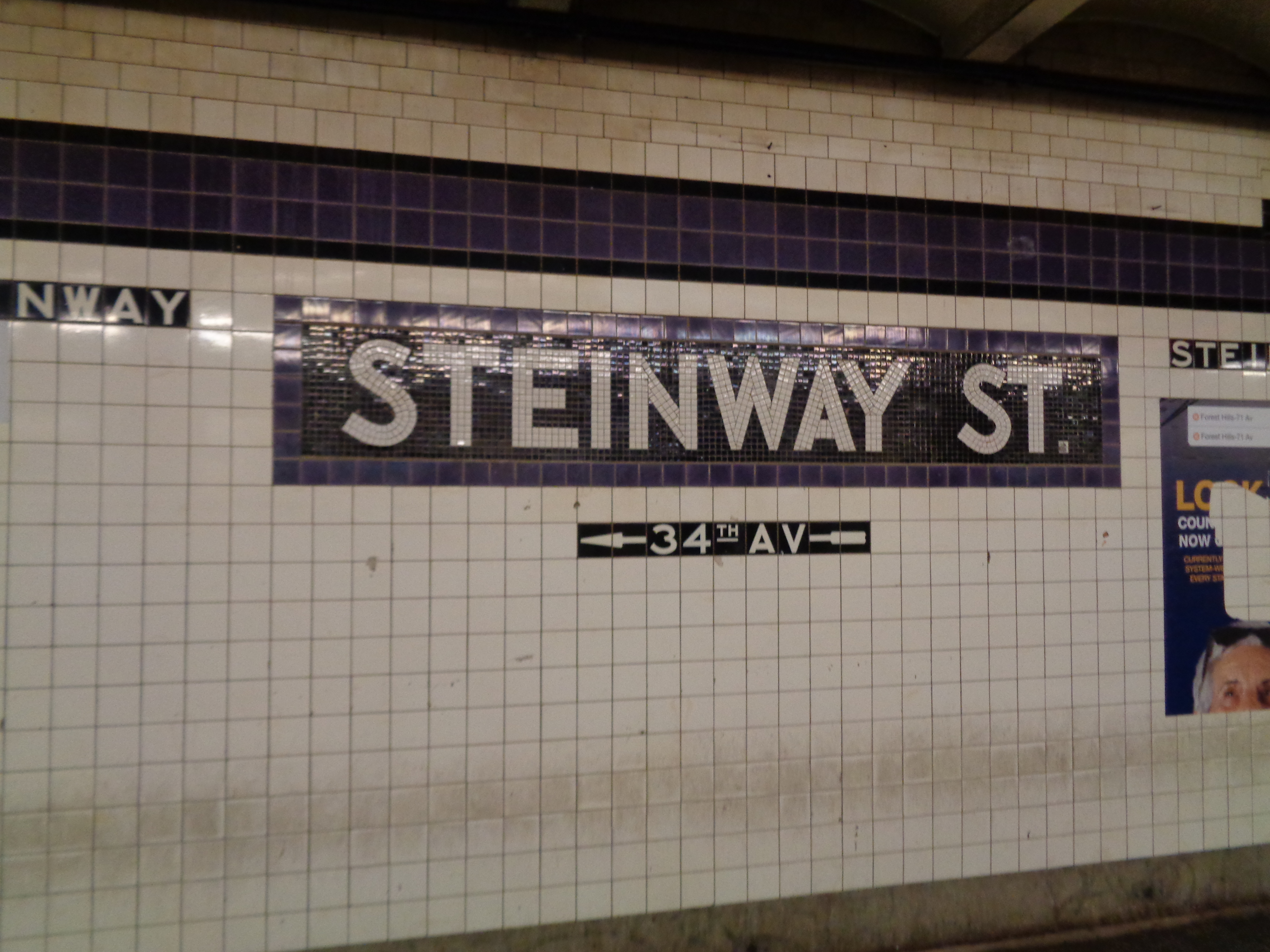 A mosaic on the Manhattan-bound platform of the Steinway Street subway station in Astoria, Queens.